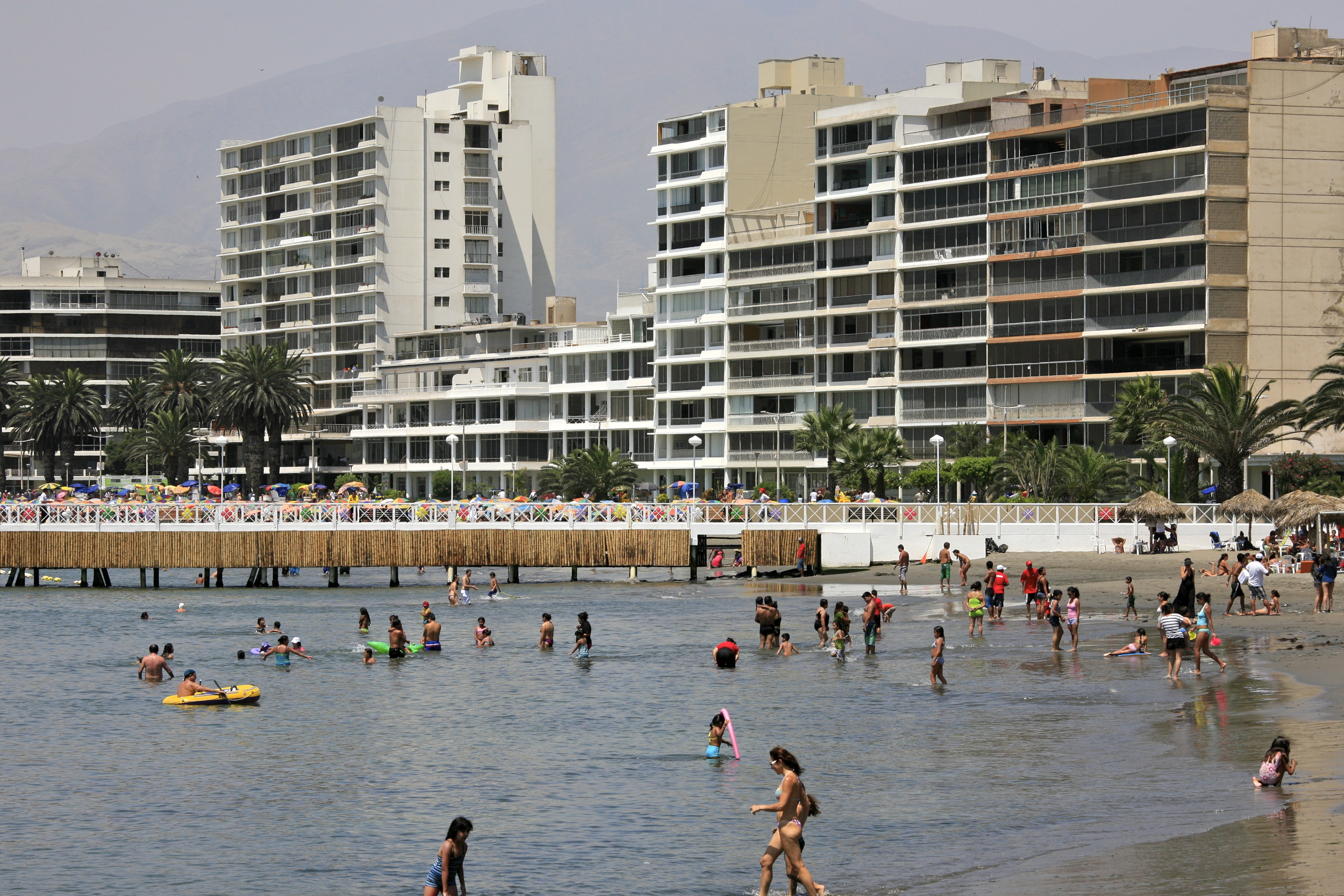 Ancon Apartments